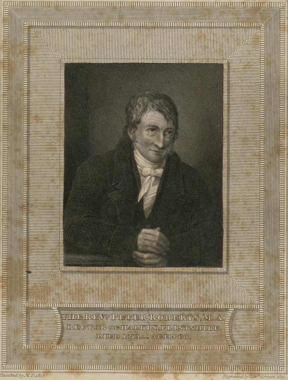 A portrait from the Welsh Portrait Collection at the National Library of Wales. Depicted person: Peter Roberts – Welsh antiquarian and Church of England clergyman